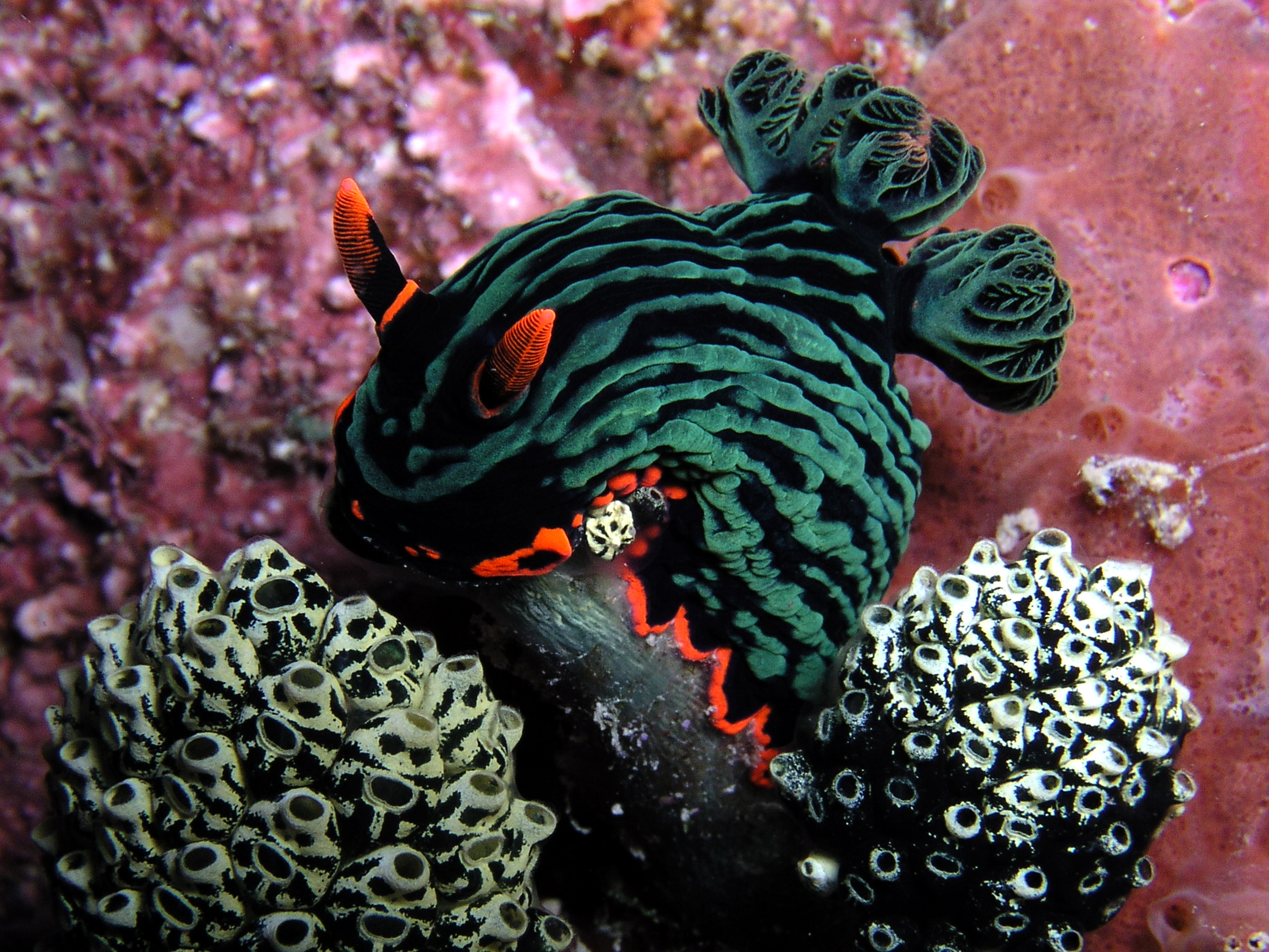 Nembrotha kubaryana nudibranch feeding on tunicates from East Timor.